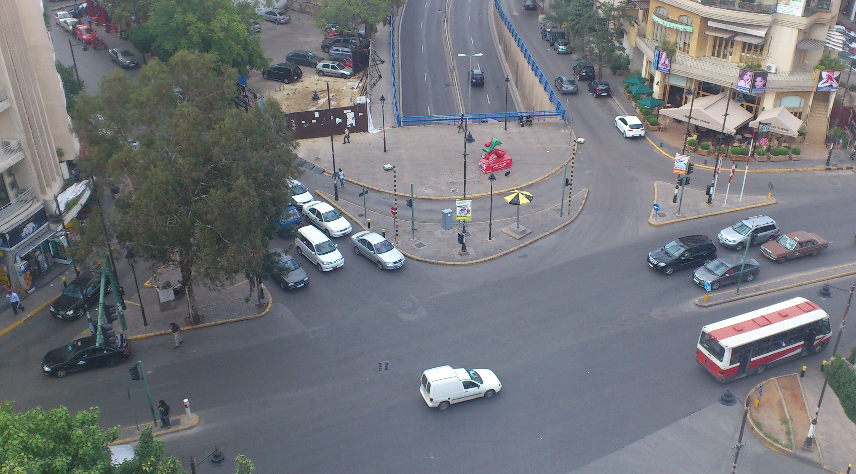 The picture of Sassine square, taken on the 12th of October 2011